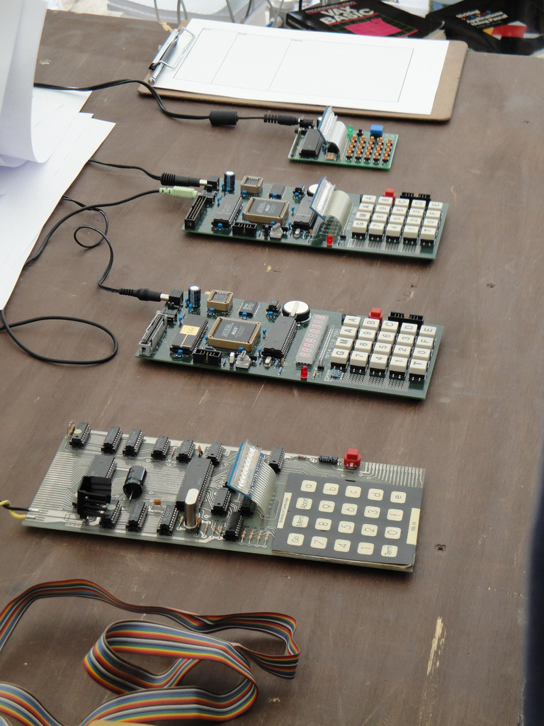 Science of Cambridge MK14 (1978). Note only the board in the foreground is an original MK14, the others are modern reproductions.